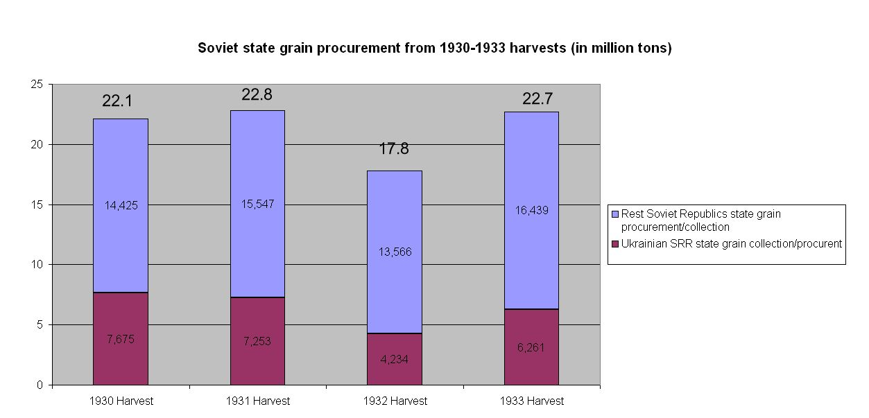 Graph for Soviet Union and Ukrainian SRR (share state grain procurement from 1930-1933 harvests. Figures derrived from The Industrialisation of Soviet Russia Volume 5: The Years of Hunger: Soviet Agriculture 1931-1933 - Paperback (Mar. 2, 2010) by R. W. Davies and Stephen G. Wheatcroft.